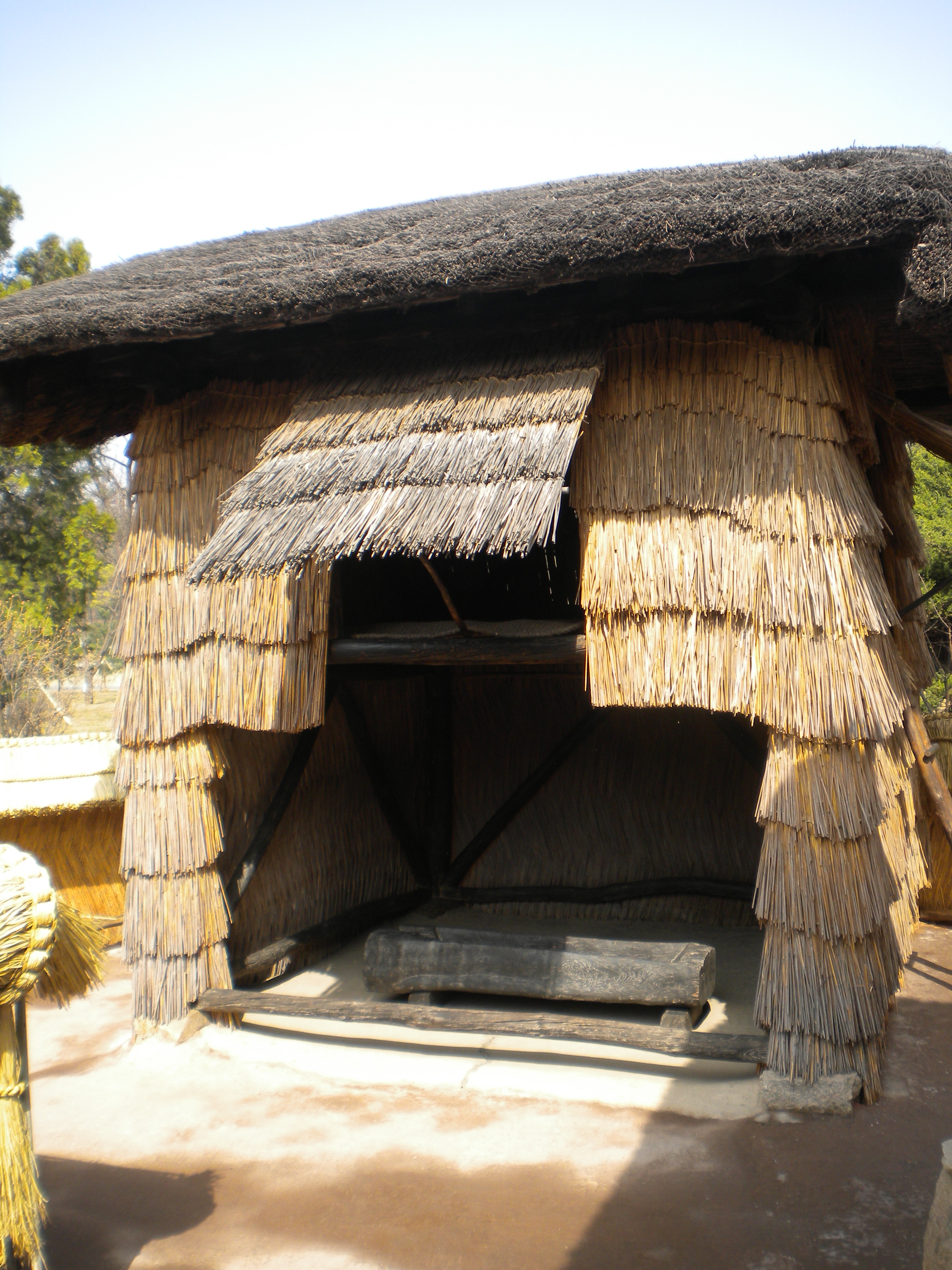 Kim Il Sung's birthplace on his 100th birthday celebrations, April 2012